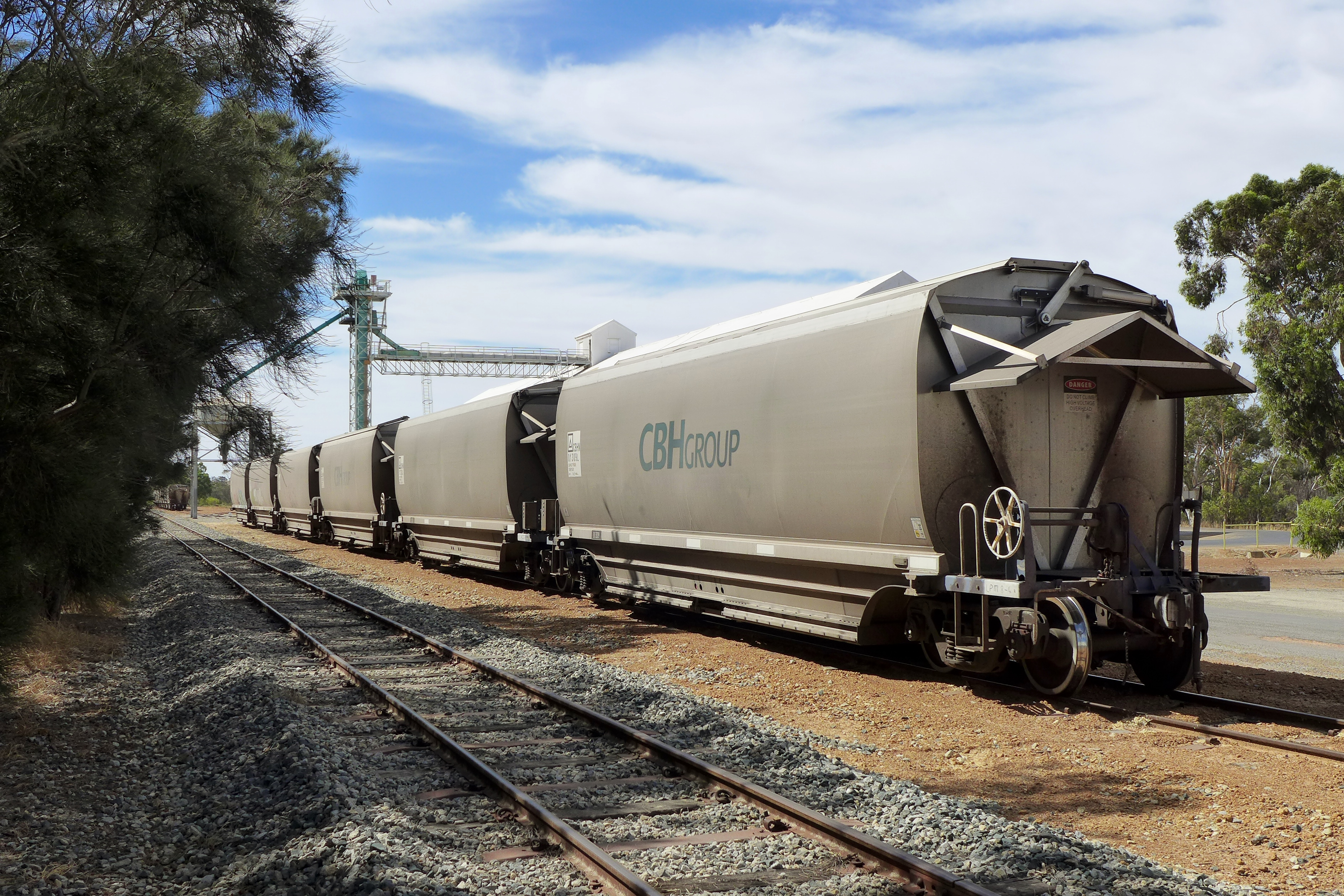 View of narrow gauge CBH grain wagons at the Calingiri railway station and grain receival point, Western Australia.